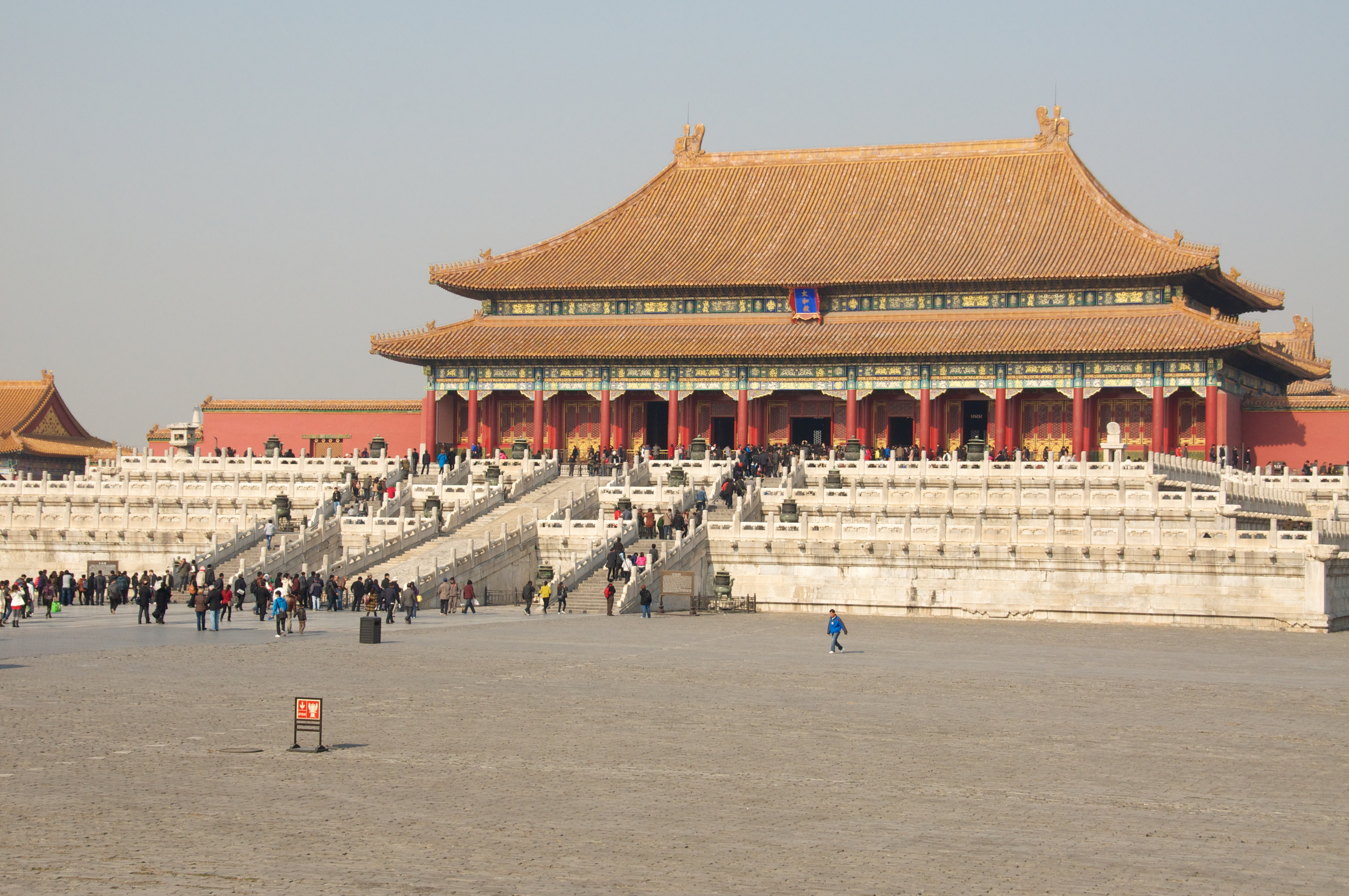 The Hall of Supreme Harmony